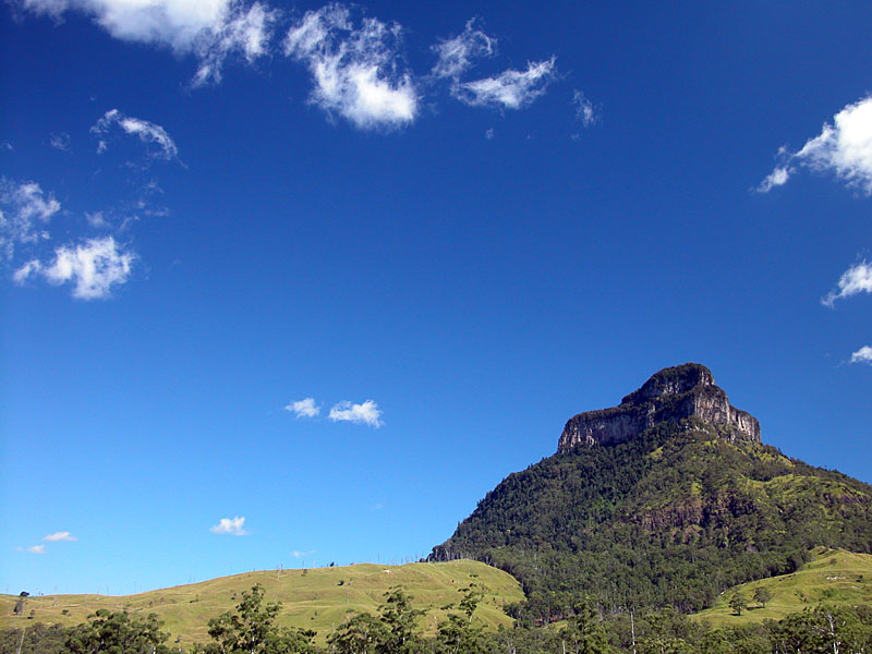 Mount Lindesay, Queensland, Australia. Photograph of Mount Lindesay, Queensland, Australia.